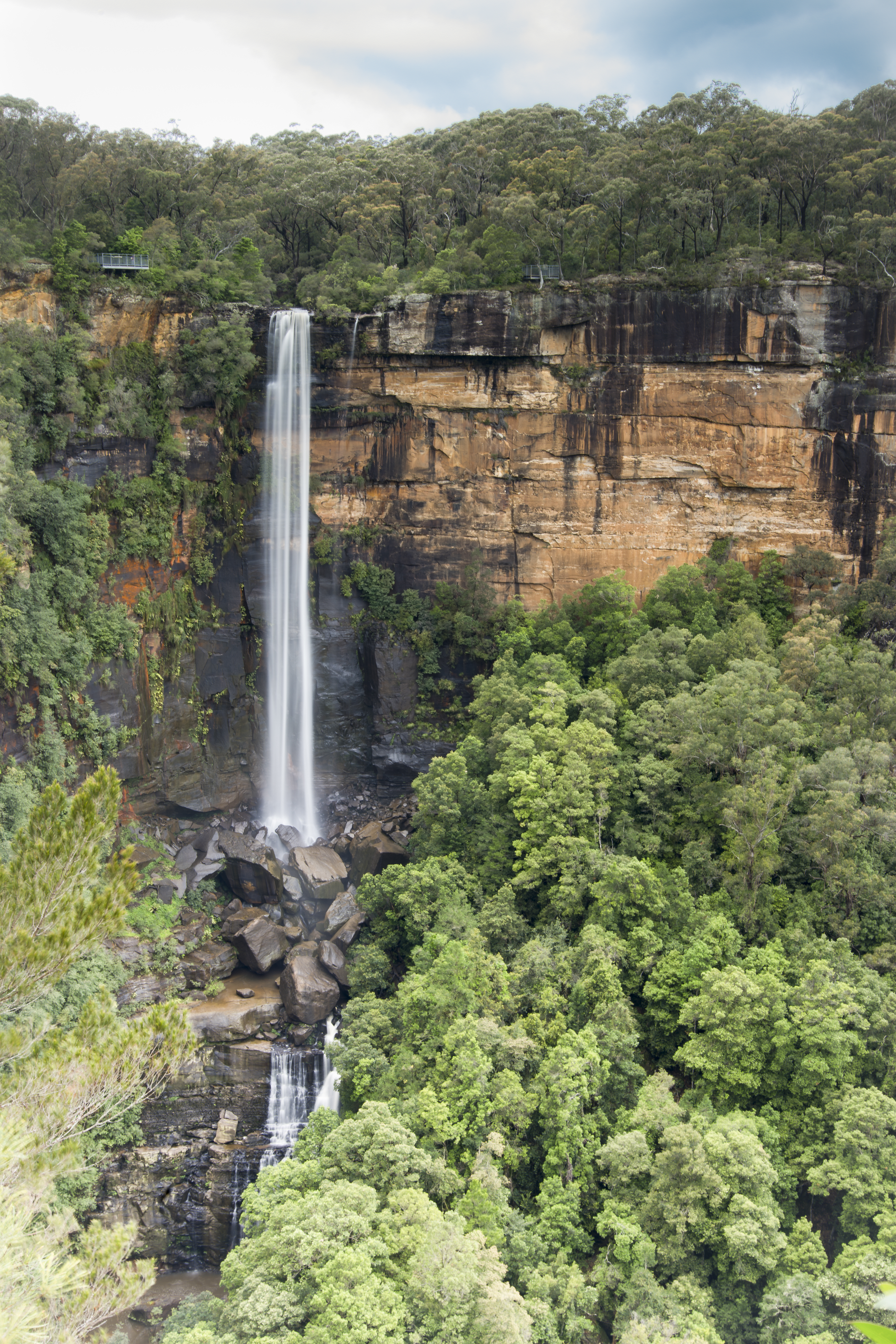 Southern Highlands, Austalia